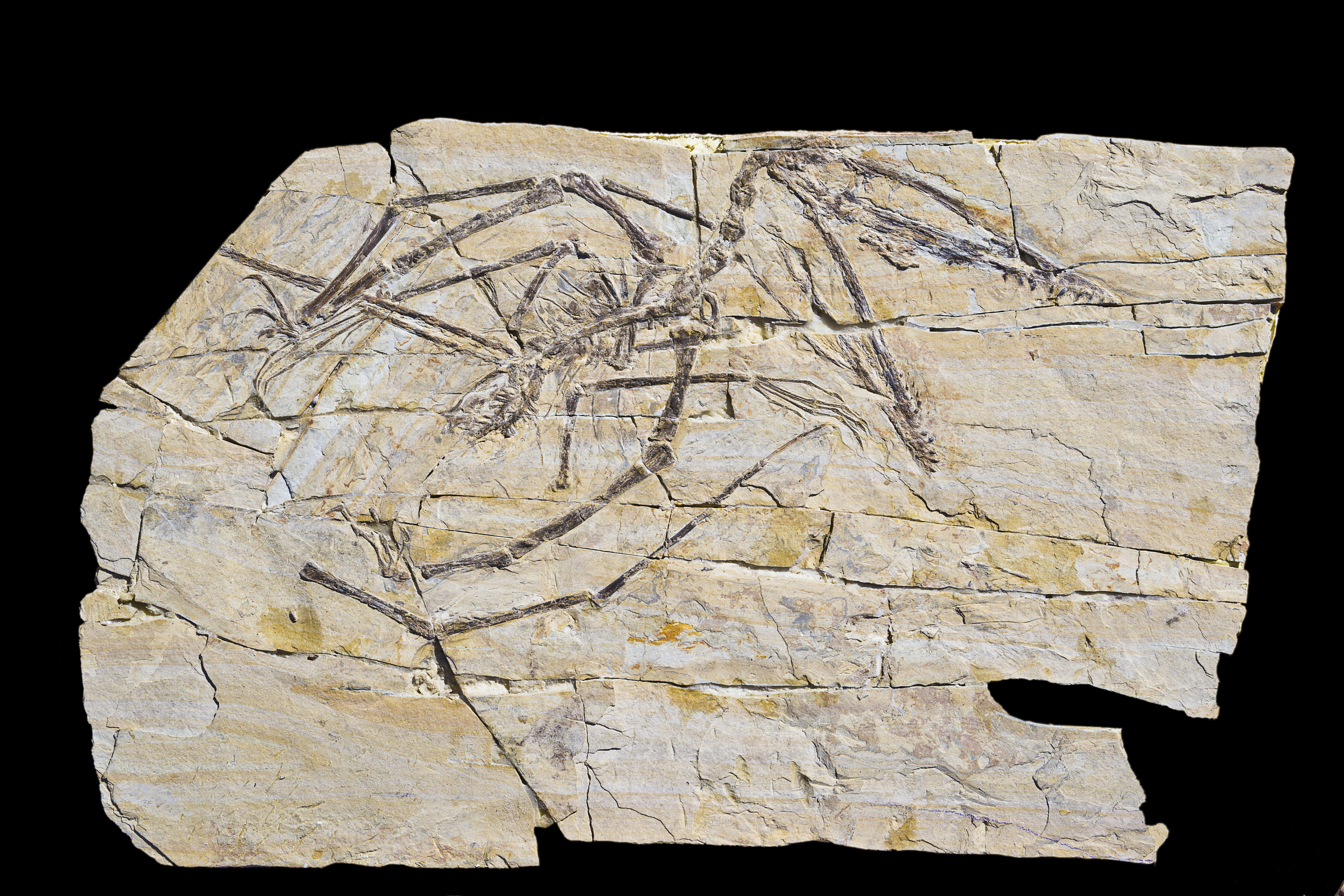 Darwinopterus modularis (Lü et al., 2010) Locality : Tiaojishan Formation Liaoning North China. Stage : Jurassic Size : 43 cm